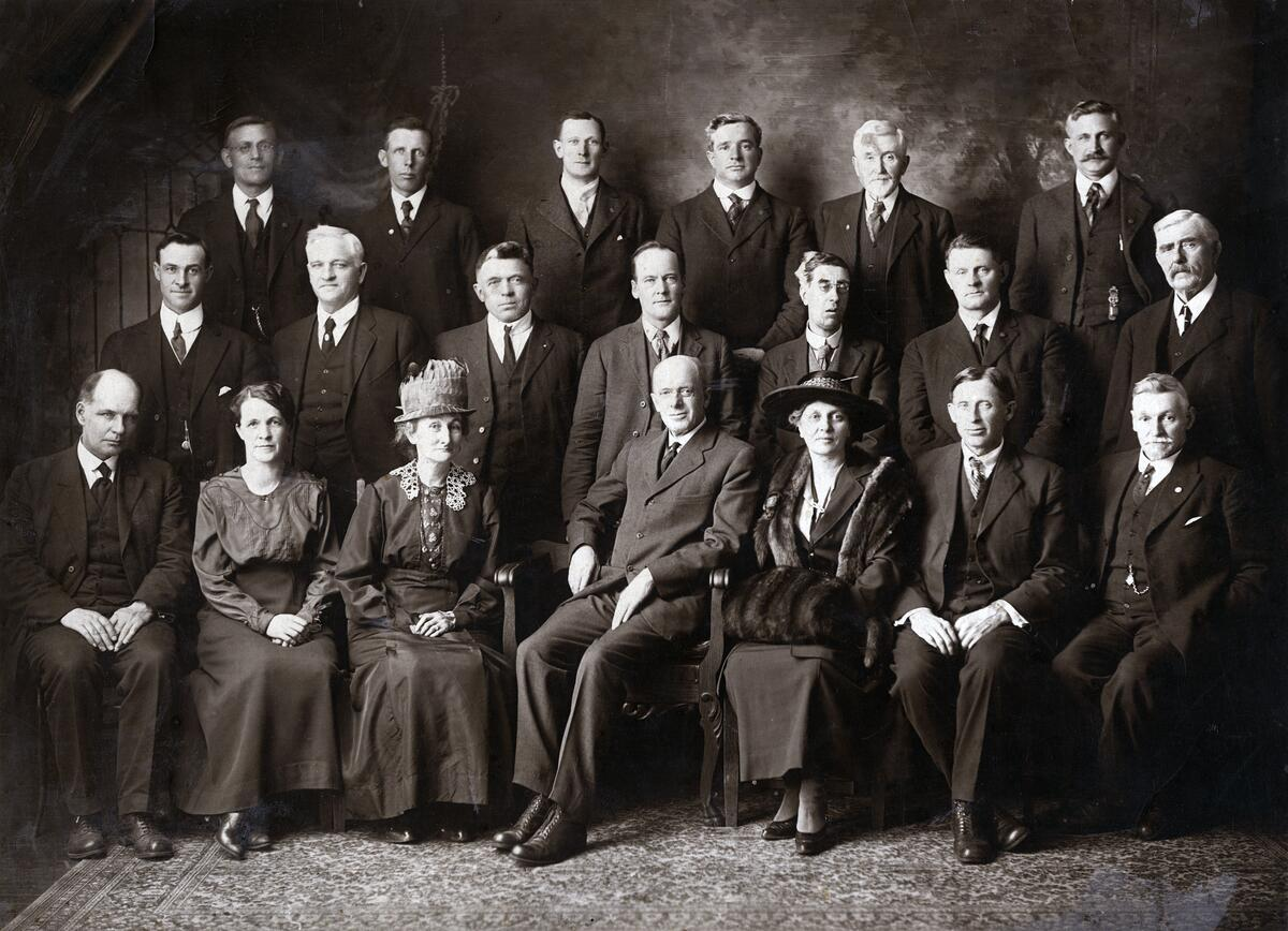 The Board of Directors of the United Farmers of Alberta. Back row: A. Rafin, Henry E. Spencer, H. Higginbotham, G.D. Sloane, George F. Root, Joseph Stauffer. Middle row: G.A. Forster, Charles H. Harries, George G. Haser, Lawrence Peterson, F.W. Smith, Herbert Greenfield, W.F. Bredin. Front row: Perrin Baker, Mrs. J.F. Ross, Mrs. Paul Carr, Henry Wise Wood, Irene Parlby, W.D. Trego, Rice Sheppard.